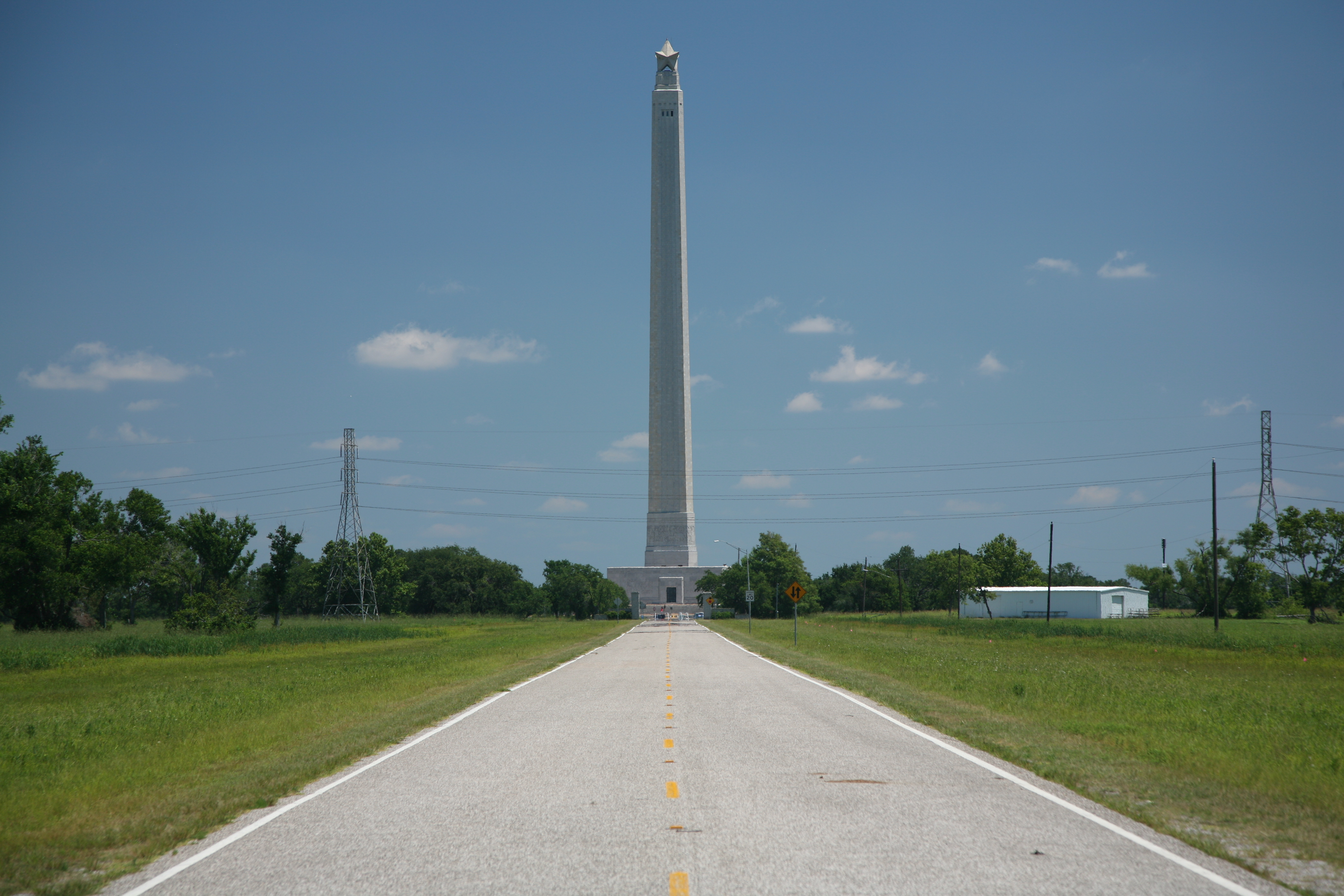 San Jacinto monument near Huston, Texas